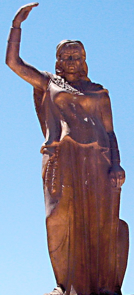 Statue of Dihya